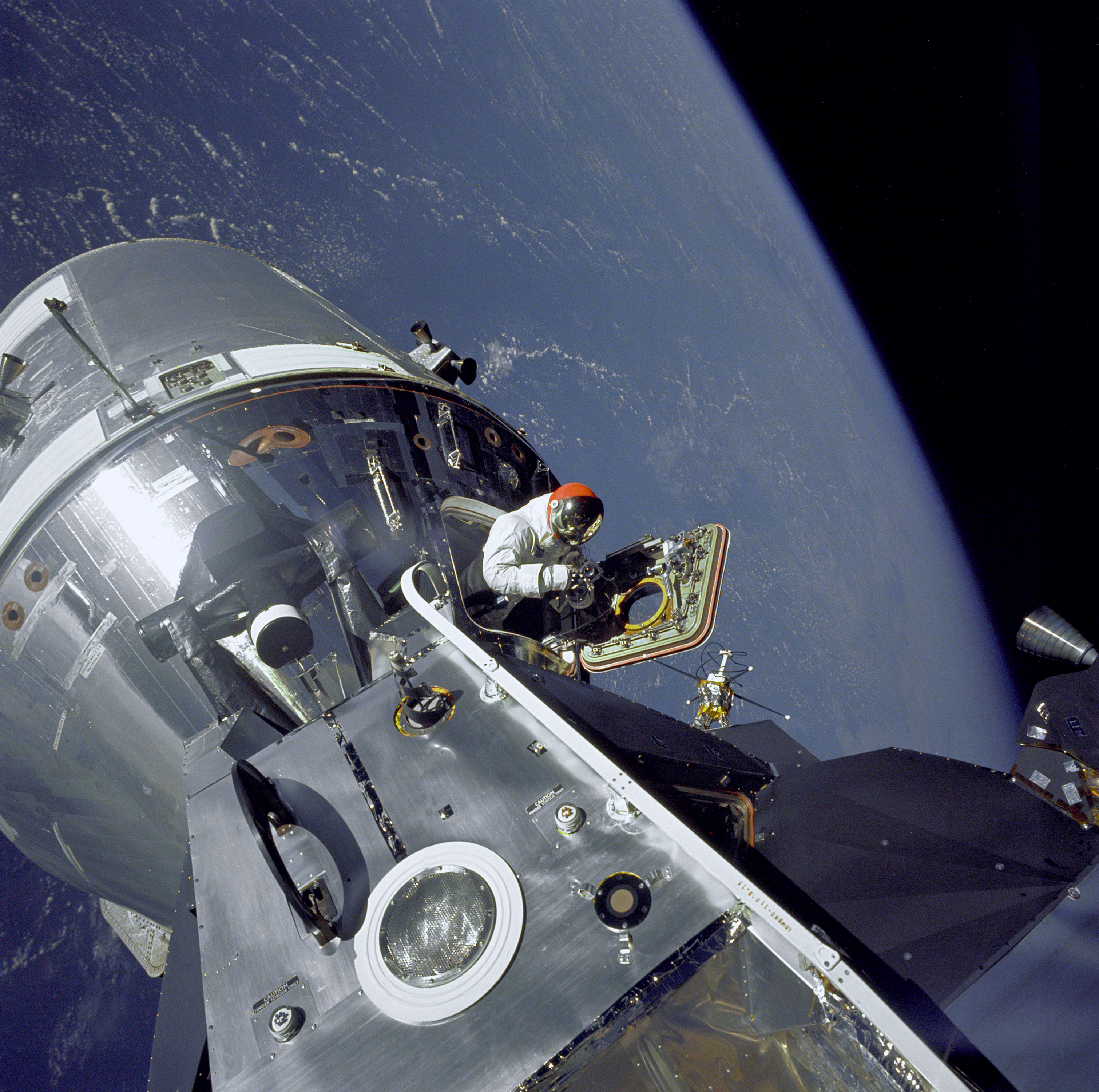 Apollo 9 Command/Service Modules (CSM) nicknamed "Gumdrop" and Lunar Module (LM), nicknamed "Spider" are shown docked together as Command Module pilot David R. Scott stands in the open hatch. Astronaut Russell L. Schweickart, Lunar Module pilot, took this photograph of Scott during his EVA as he stood on the porch outside the Lunar Module.